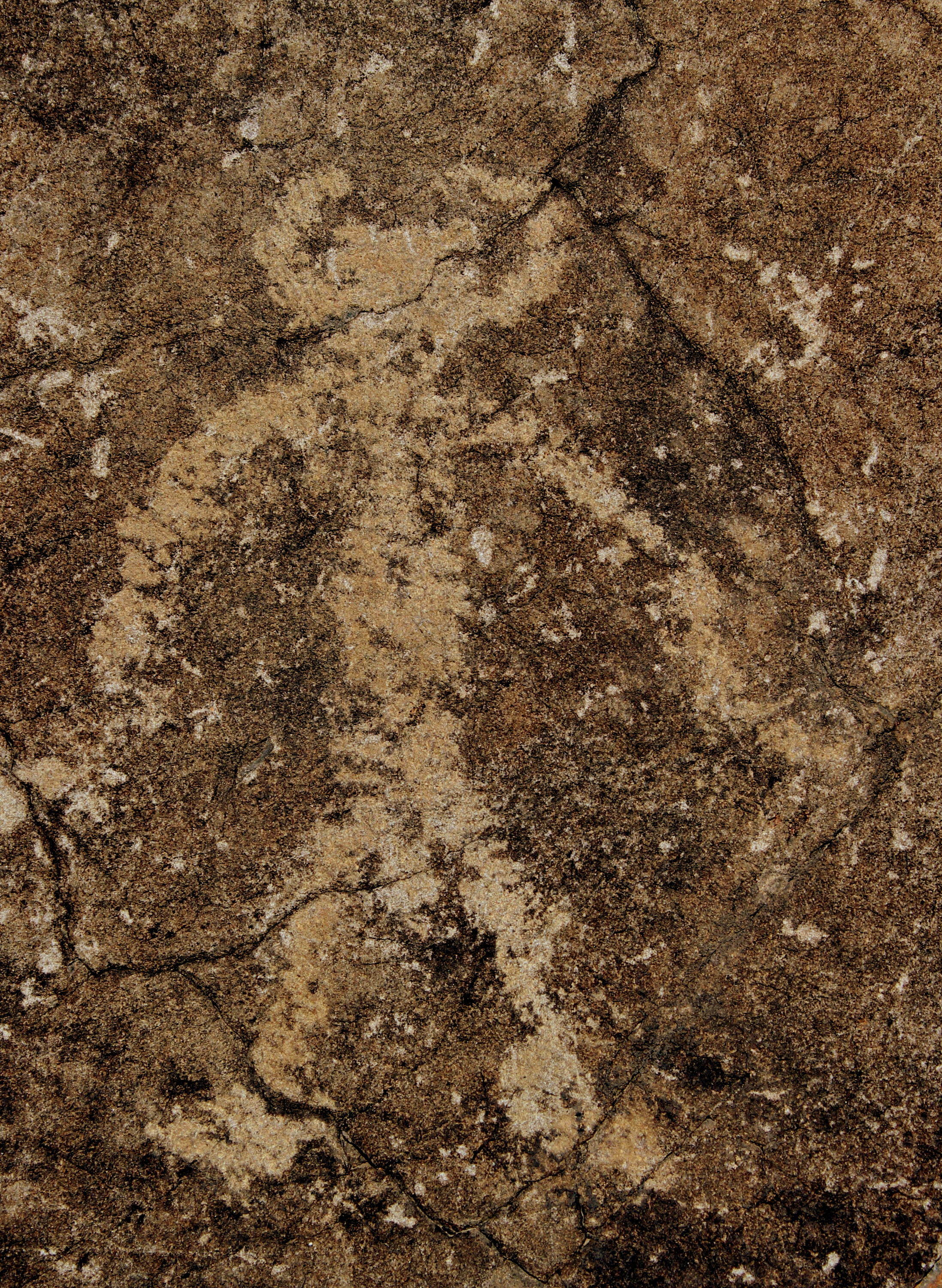 Petroglyphs on Mount Baga-Zarya. Siberia, Buryatia.